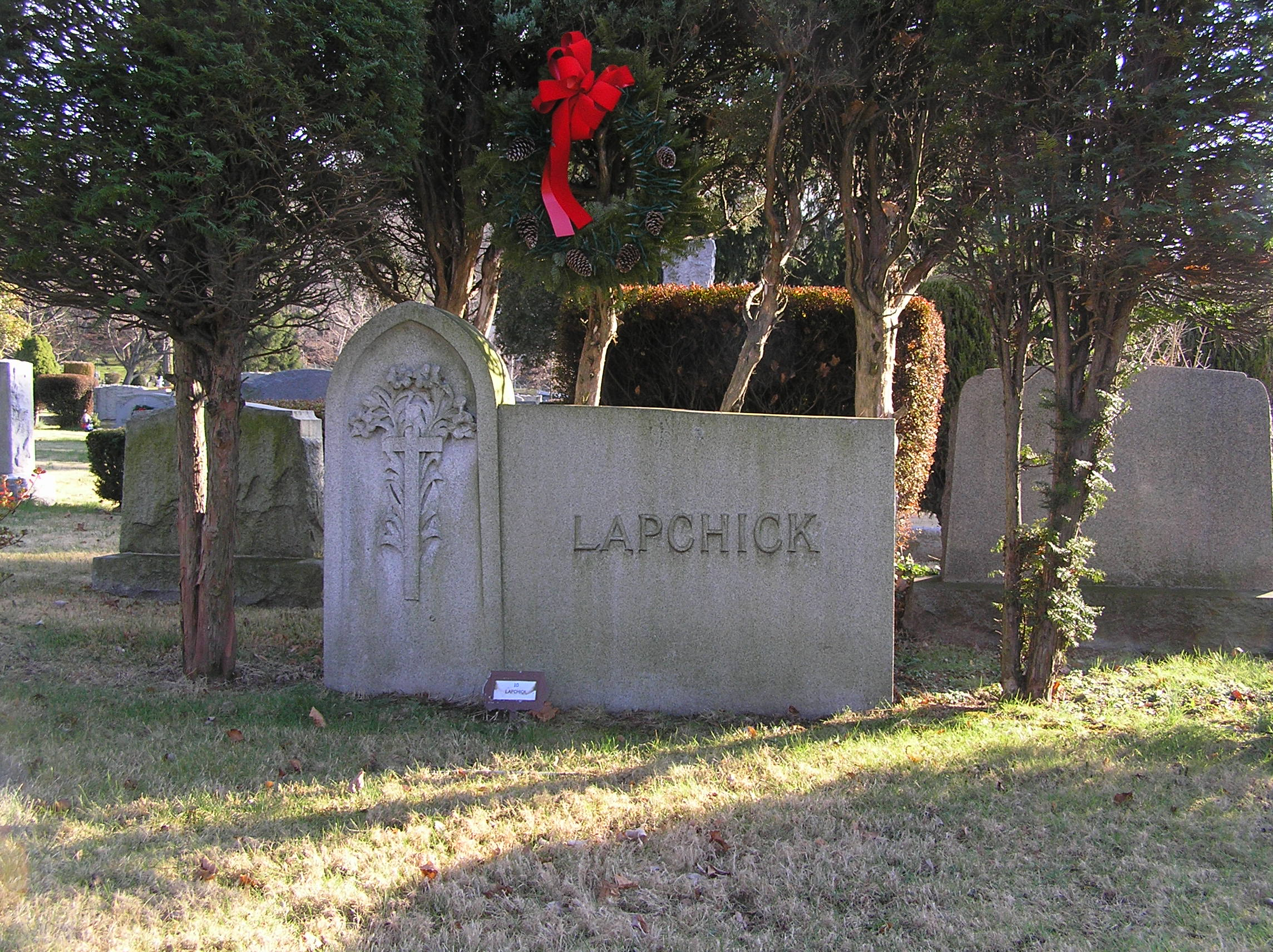 I took this photograph of the headstone of Joe Lapchick in Oakland Cemetery in Yonkers, New York, on December 29, 2006. GNU Free Documentation License